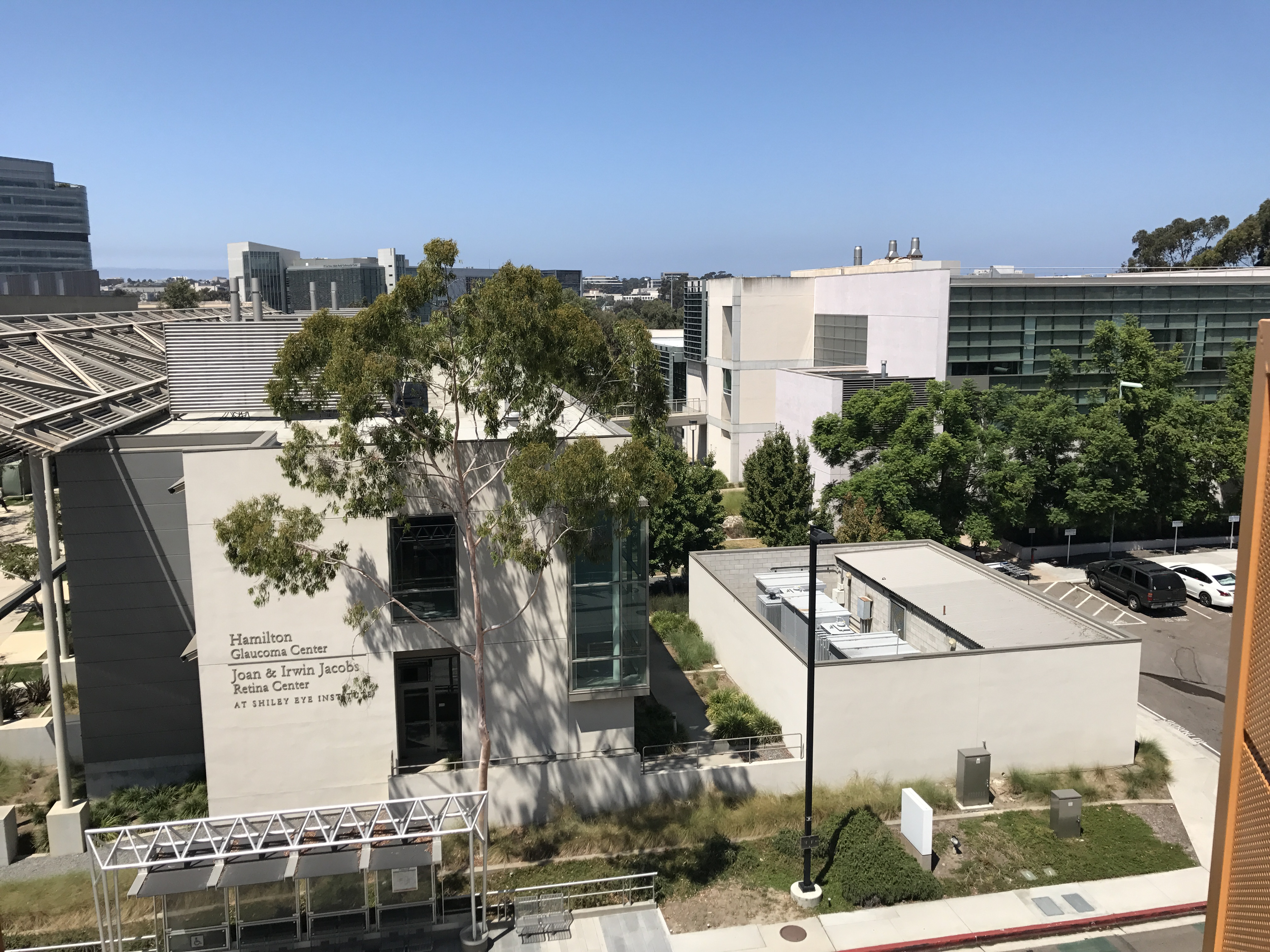 The Donald P. and Darlene Shiley Eye Institute houses the UC San Diego Department of Ophthalmology at the UC San Diego Health La Jolla campus in La Jolla, California. It comprises Shiley Eye Center, the Hamilton Glaucoma Center, the Jacobs Retina Center, and the Ratner Children's Eye Center.